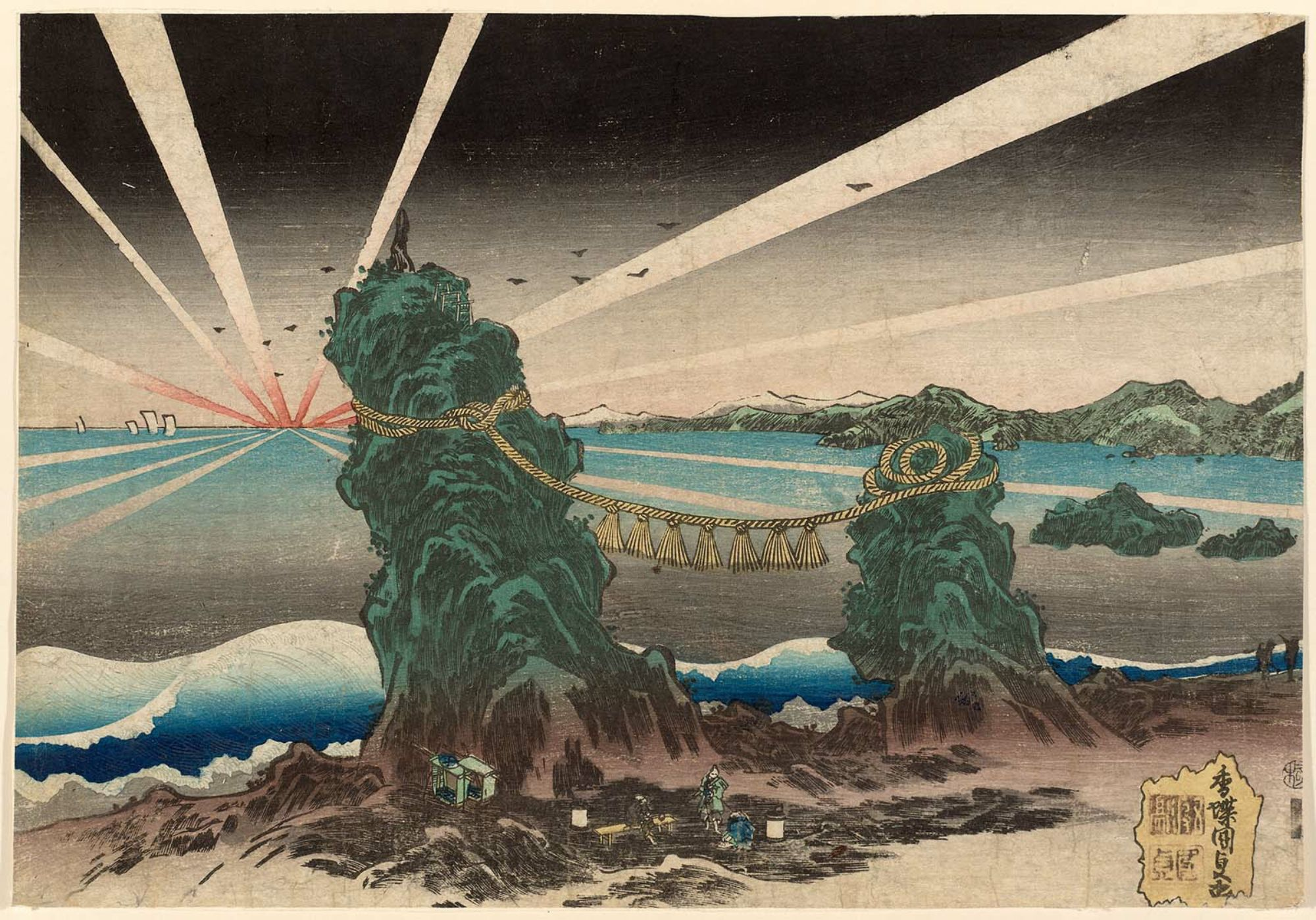 Seascape print by Utagawa Kunisada (1786 - 1865)